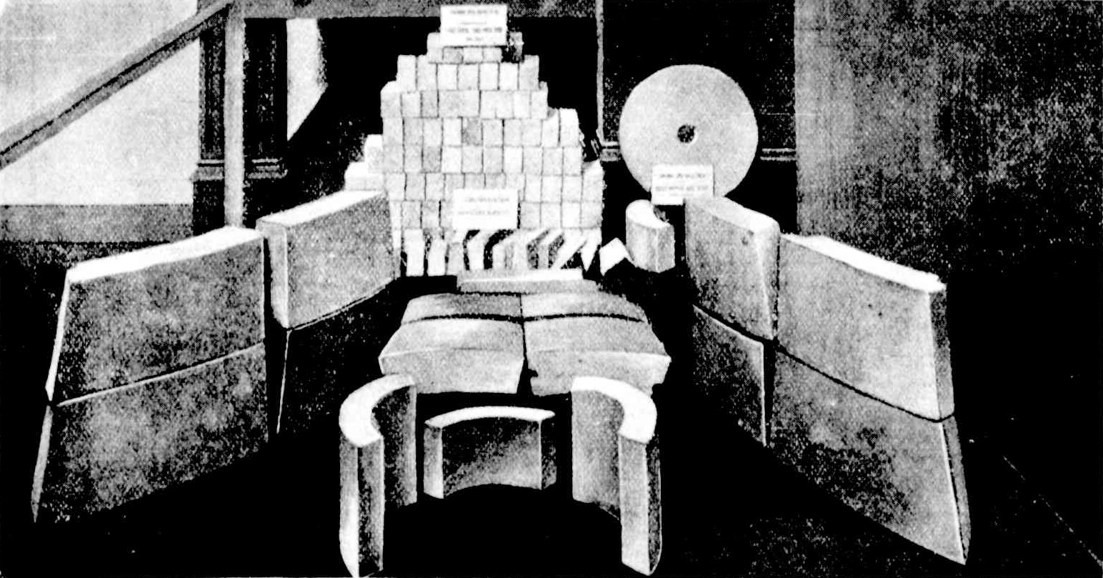 Clackline Firebrick Company display at the 1905 Perth A.N.A. (Australian Natives' Association) Exhibition